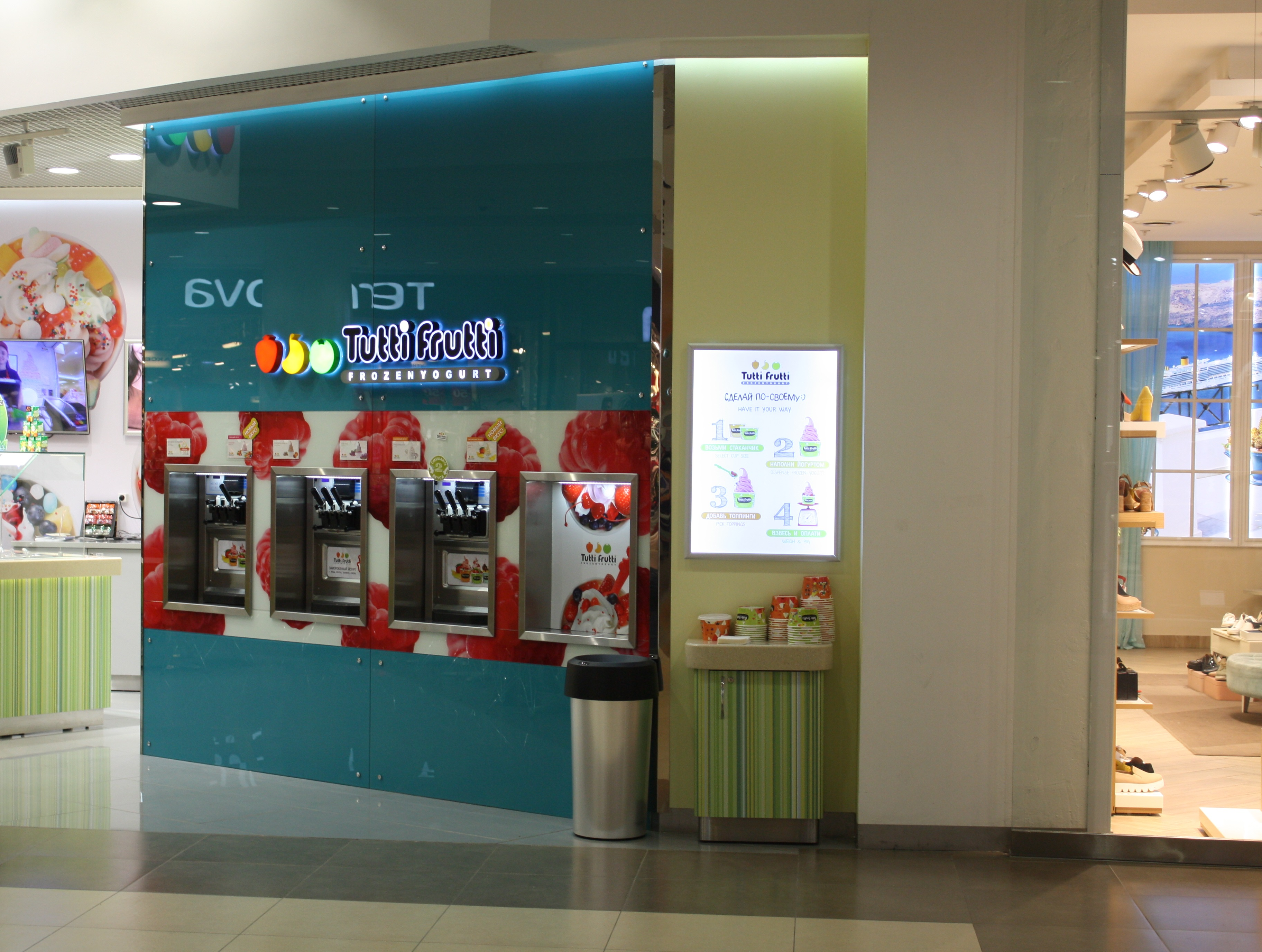 Tutti Frutti Frozen Yogurt, Galereya Novosibirsk.